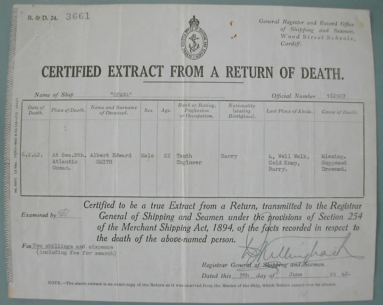 Death certificate for Albert Edward Smith, lost at sea in the North Atlantic, 6 February 1942.